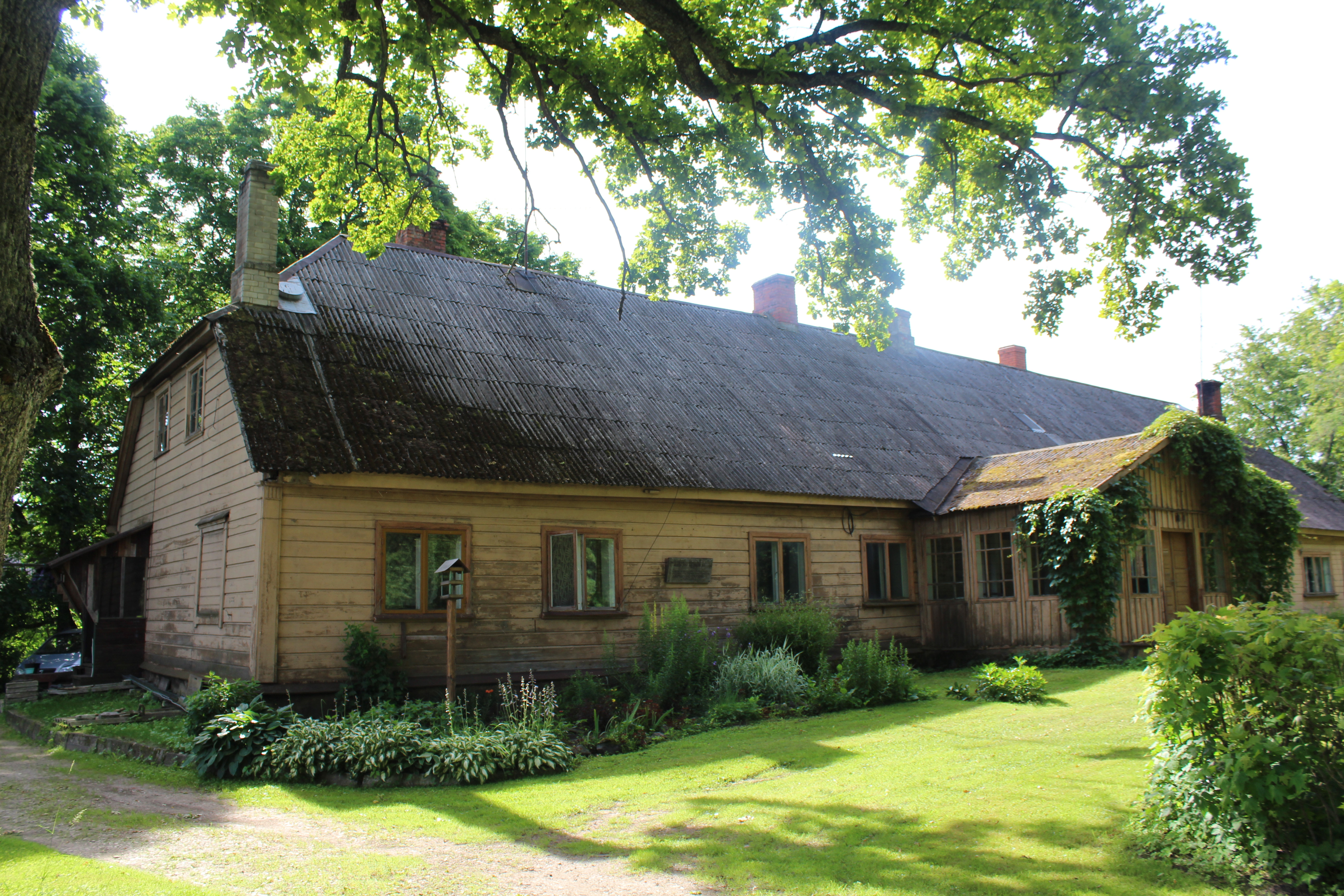 Pastor's manor house in Jelgavkrasti, Liepupe parish.